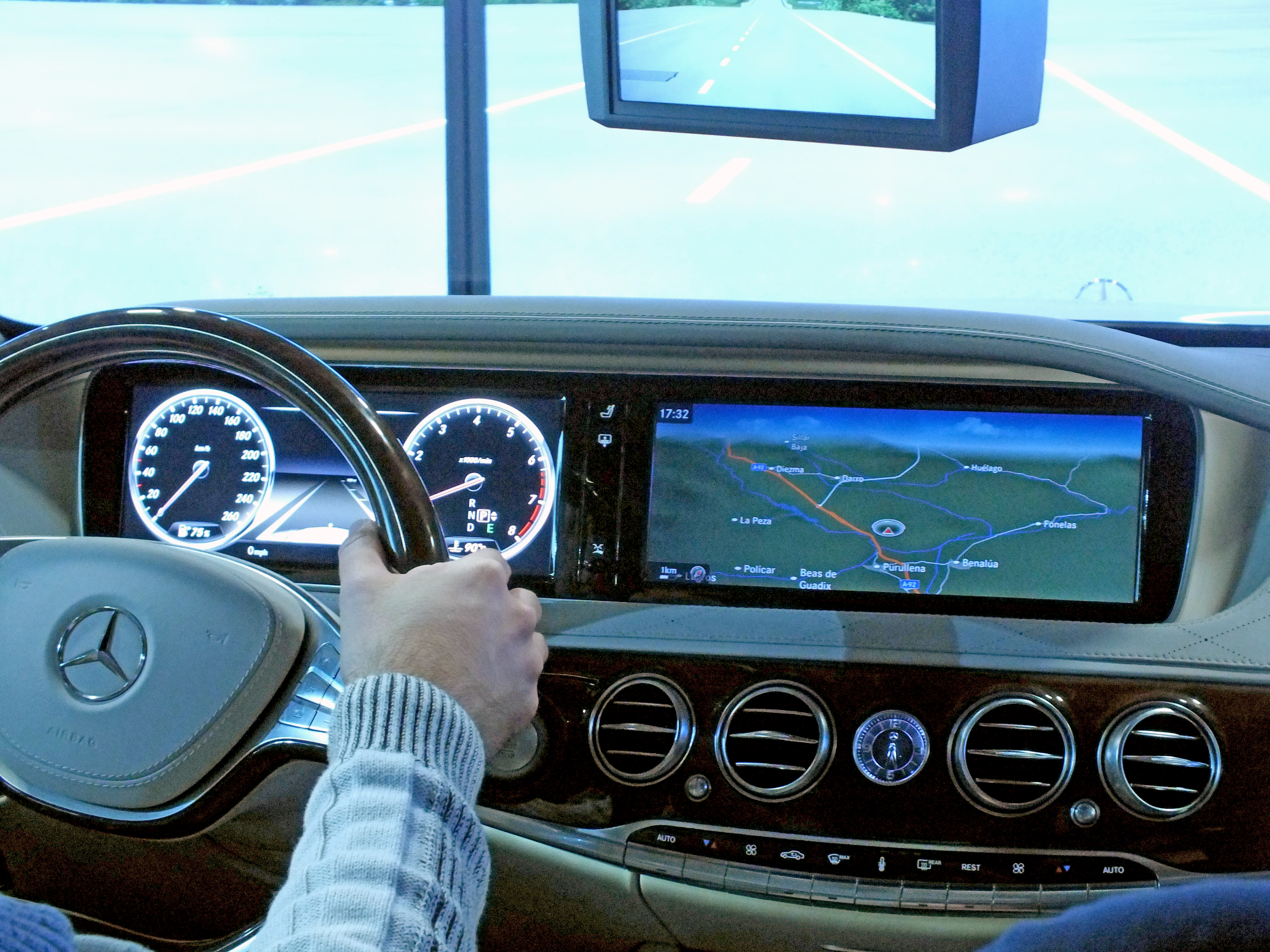 The massive all-LCD navigation and information system, standard on all S-Class models.